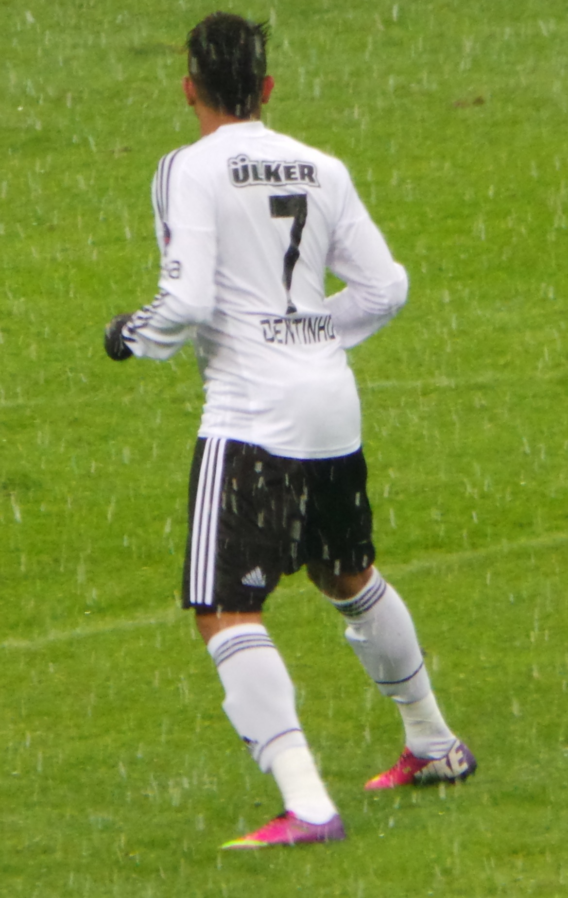 Dentinho against gs